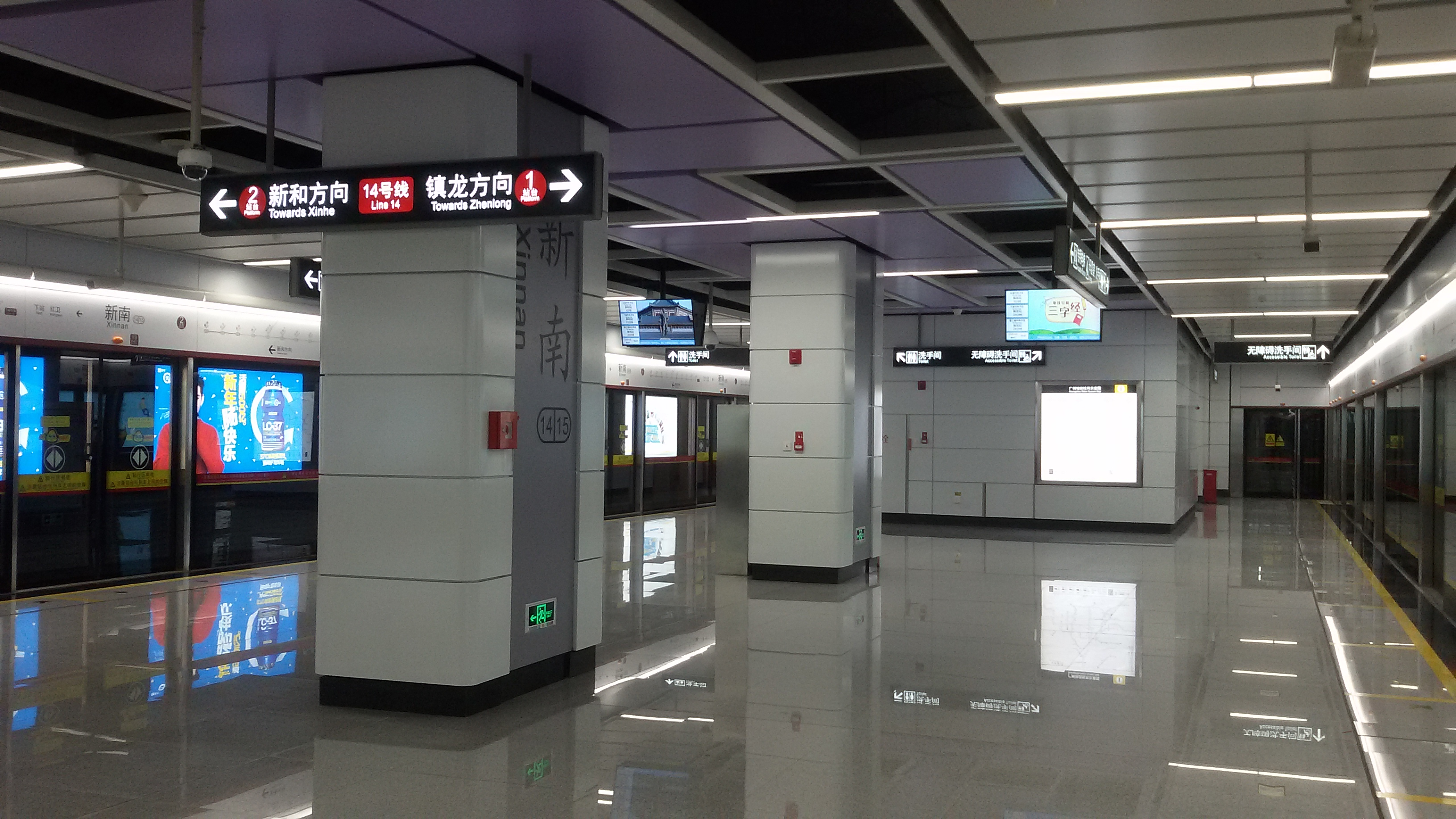 Station Platform for Xinnan Station in Guangzhou Metro.